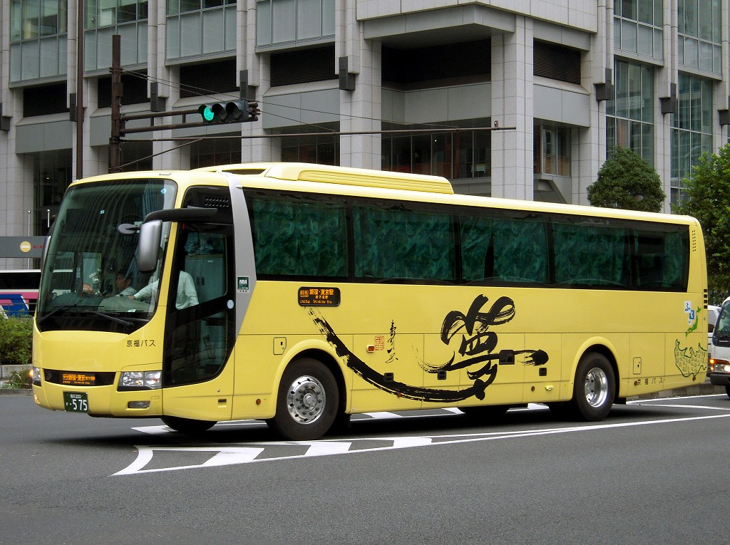 Keifuku bus Mitsubishi Fuso Aero Ace (BKG-MS96JP)for Highwaybus "Dream Fukui"(Fukui-Tokyo) new color